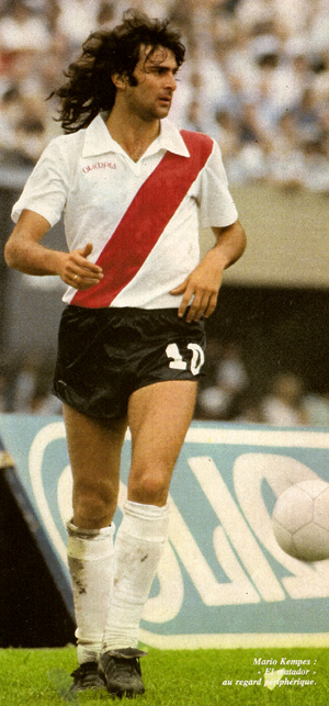 Mario Alberto Kempes in 1981 during his time as a River Plate player.